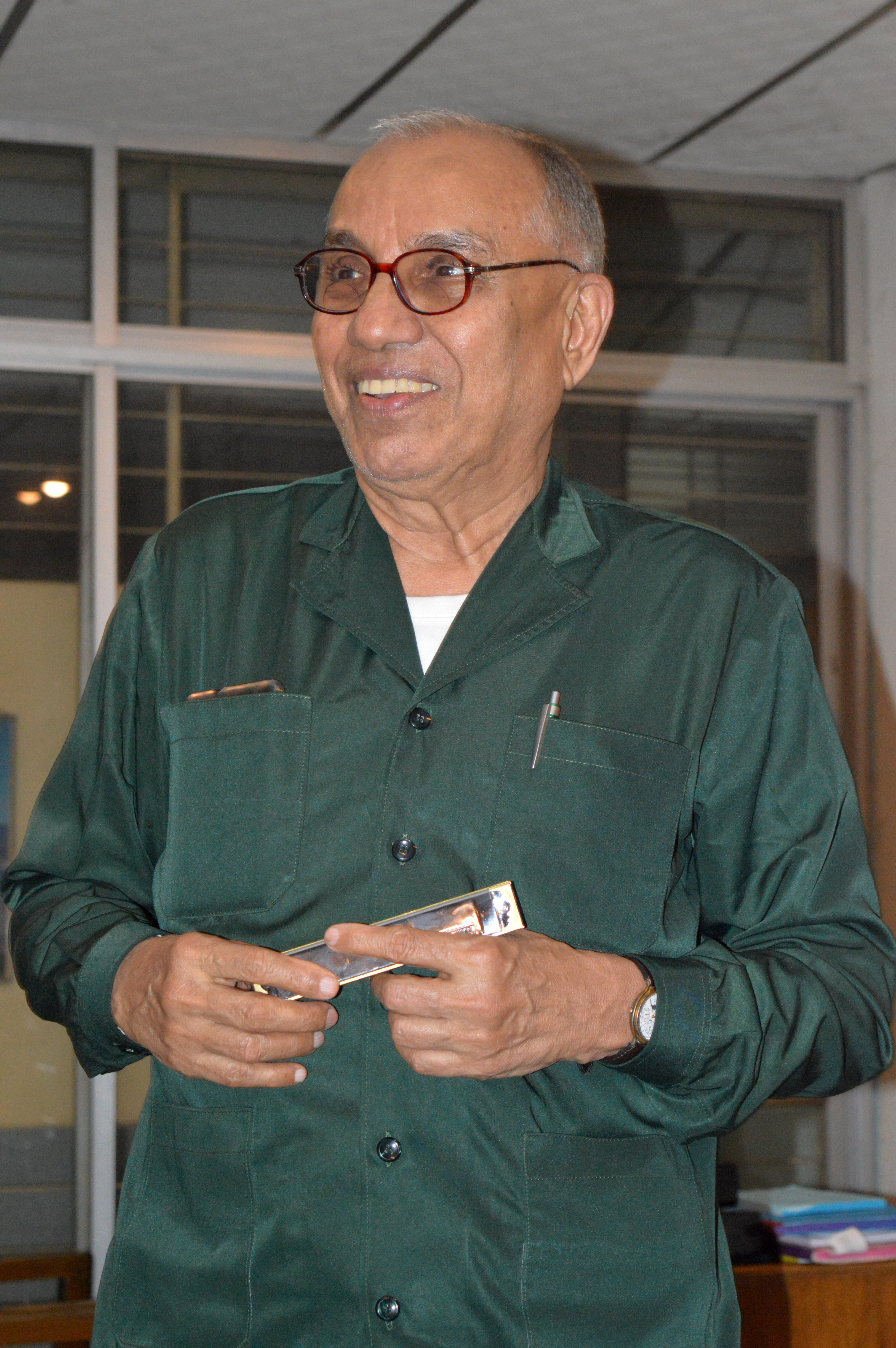 Muhammad Nurul Islam at BNWIKI12 celebration in Chittagong